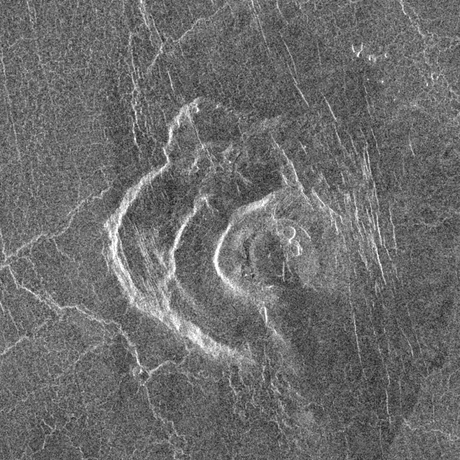 A mount Egeria Farrum on Venus (a map). Radar image by Magellan, made in Left-Look mode. Size of the image is 70×70 km, north is up, contrast is increased.